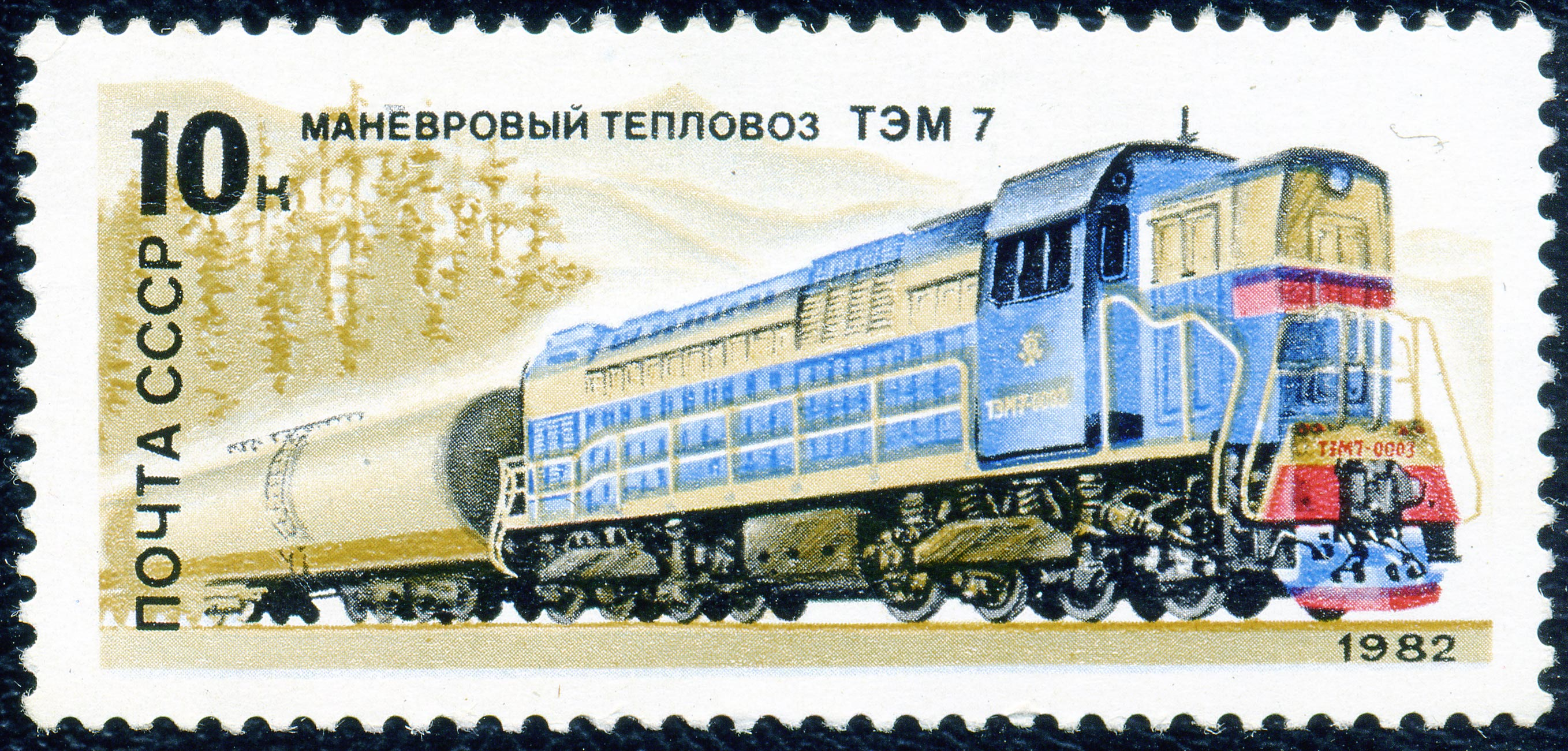 A USSR postage stamp. 1982. Diesel-locomotive shunter TEM-7.